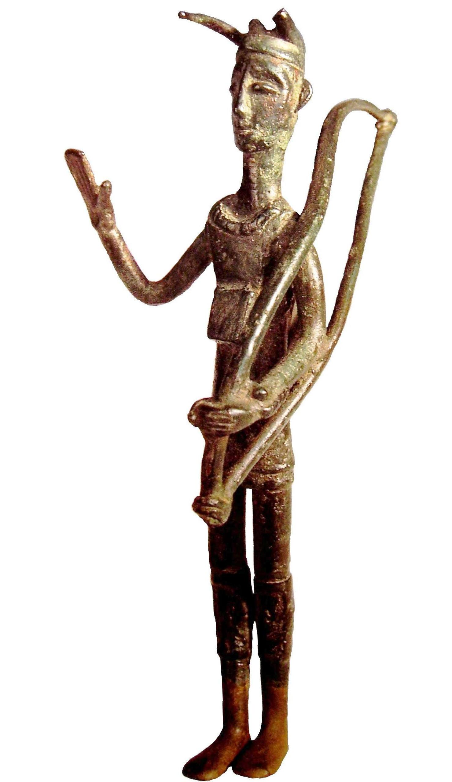 Sardinia Italy (Cagliari Museo Nazionale) Bronzetto sardo Own Work By --Shardan 02:16, 12 November 2006 (UTC)